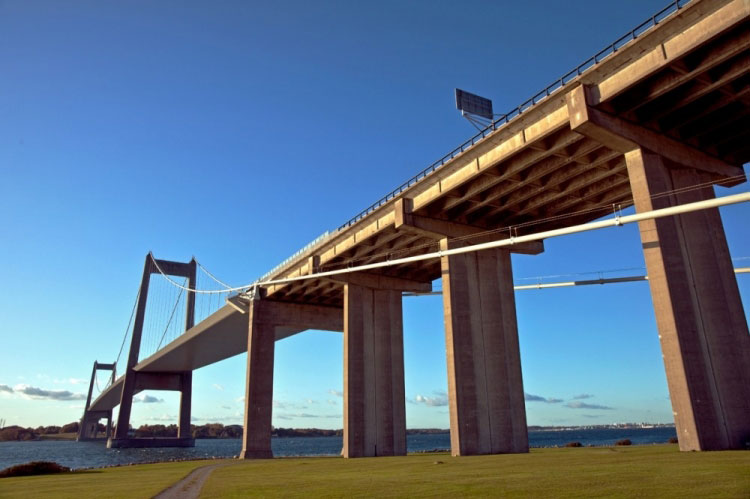 Bridge from the island of Fyn Jutland peninsula. (Denmark)